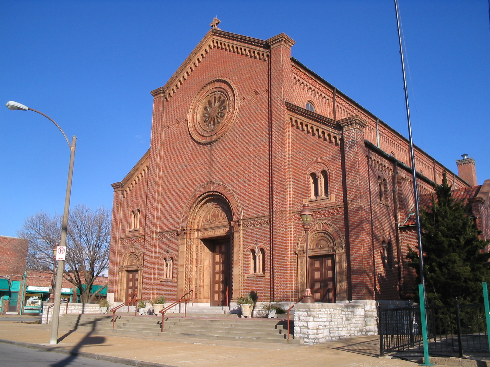 Photo taken by TMS63112